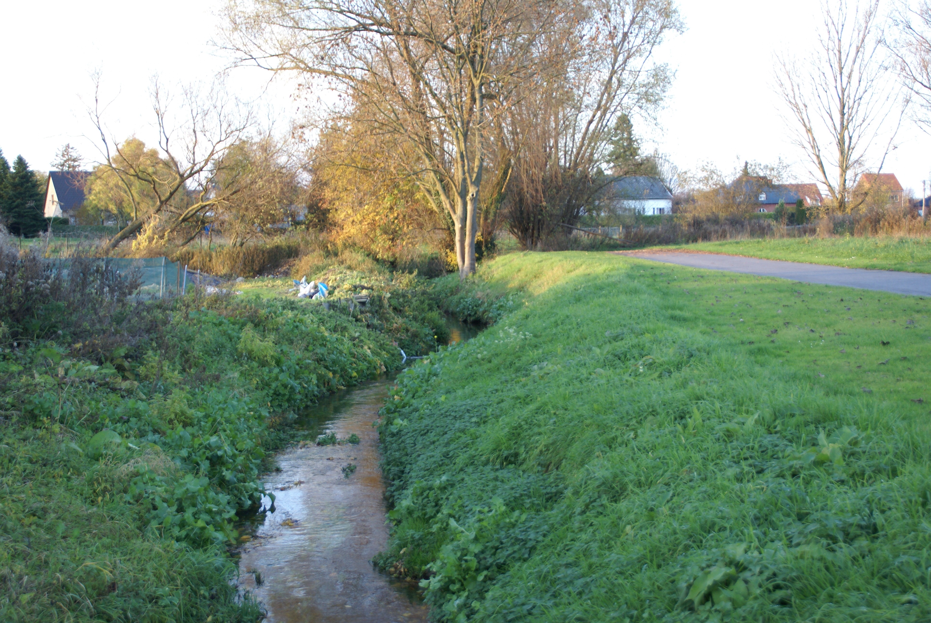 Sint-Truiden (Brustem), Belgium: The river Melsterbeek